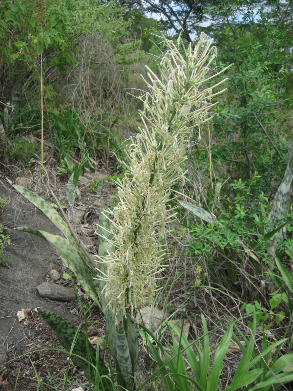 Sansevieria hyacinthoides flowering in the foothills of Mount Guro, Mozambique. This is probably the most common Sansevieria species in Central Mozambique.